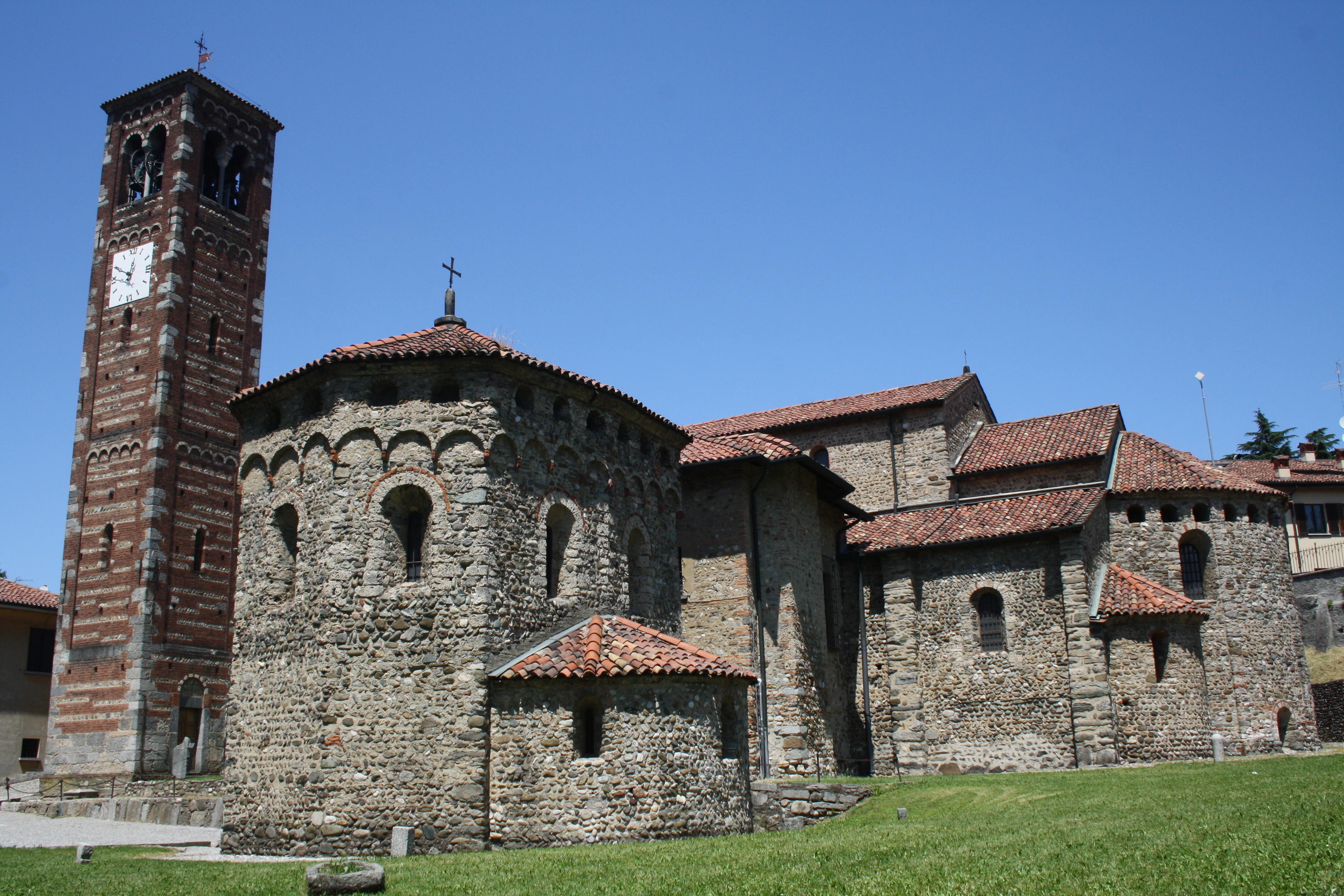 Basilica of Saints Peter and Paul in Agliate, Lombardy, Italy.